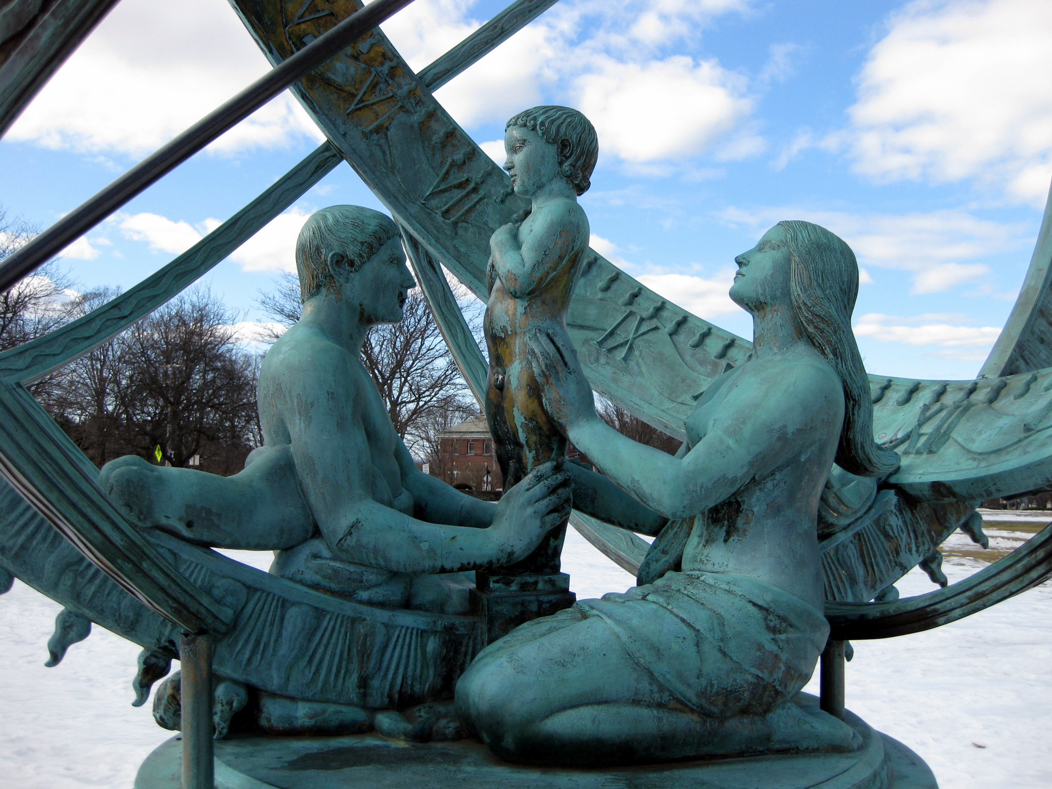 Sculpture by Paul Manship on the campus of Phillips Academy in Andover, Massachusetts. The Cycle of Life sundial shows a man, woman and child representing the cycle of life are surrounded by an armillary sphere showing the relationship of the stars and earth.